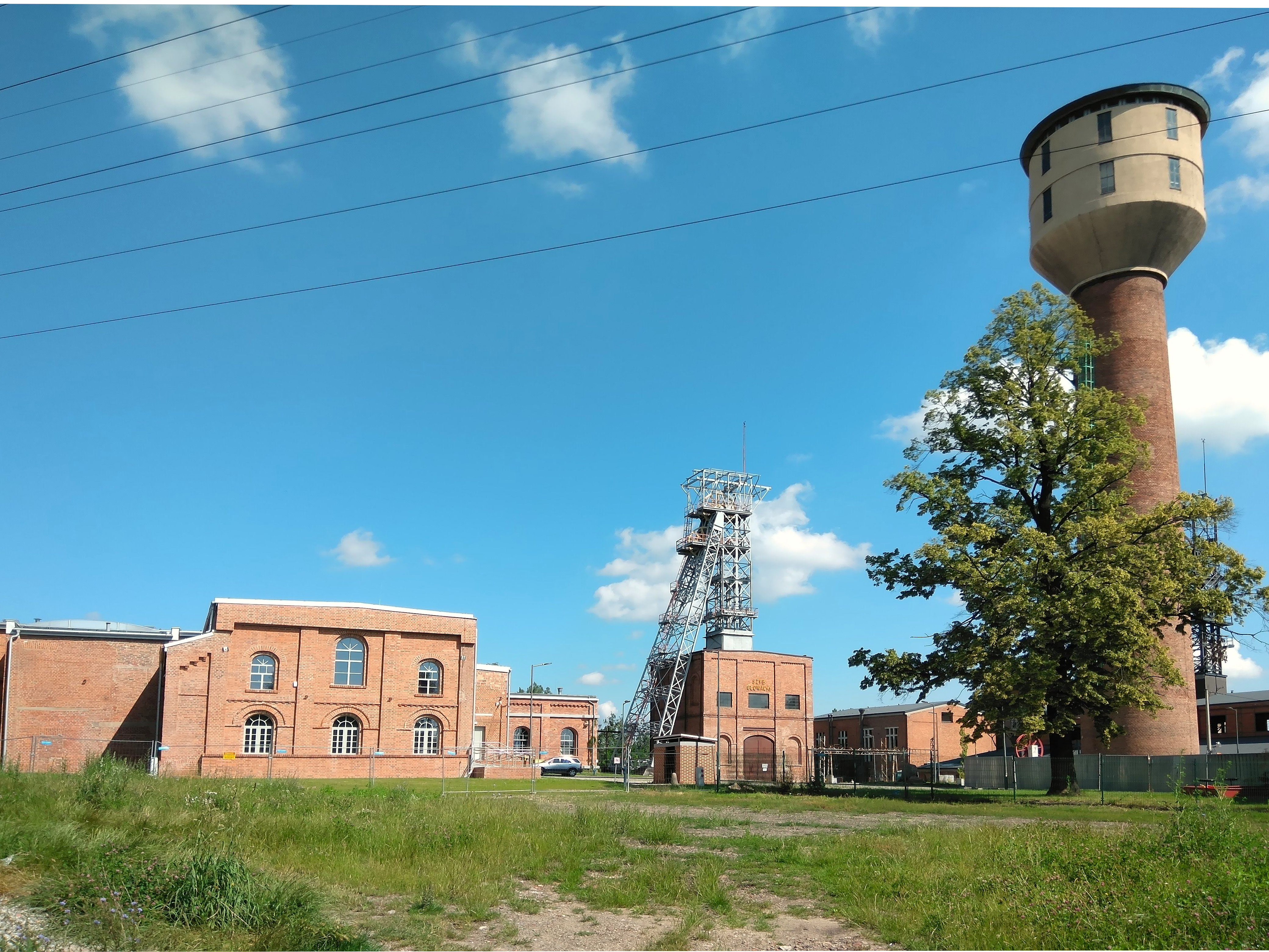 Former coal mine in Rybnik-Niewiadom, Upper Silesia, Poland, nowadays a mining museum.